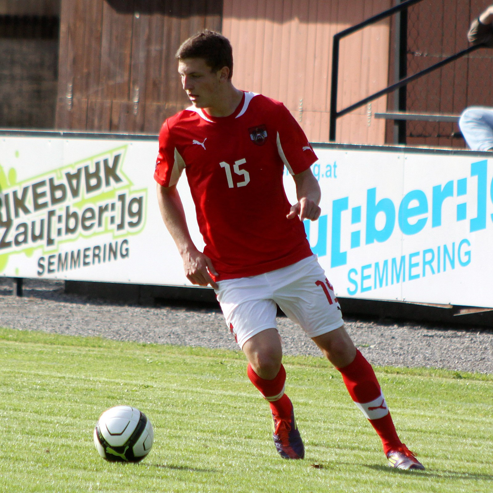 Testmatch of the austrian national under-21 football team (age group 1990) vs SV Gloggnitz at 2012-06-02 in the stadium of Gloggnitz – The photo shows Kevin Wimmer (LASK Linz). Object location 47° 39′ 53.73″ N, 15° 55′ 53.42″ E - OpenStreetMap - Proximityrama(Info)